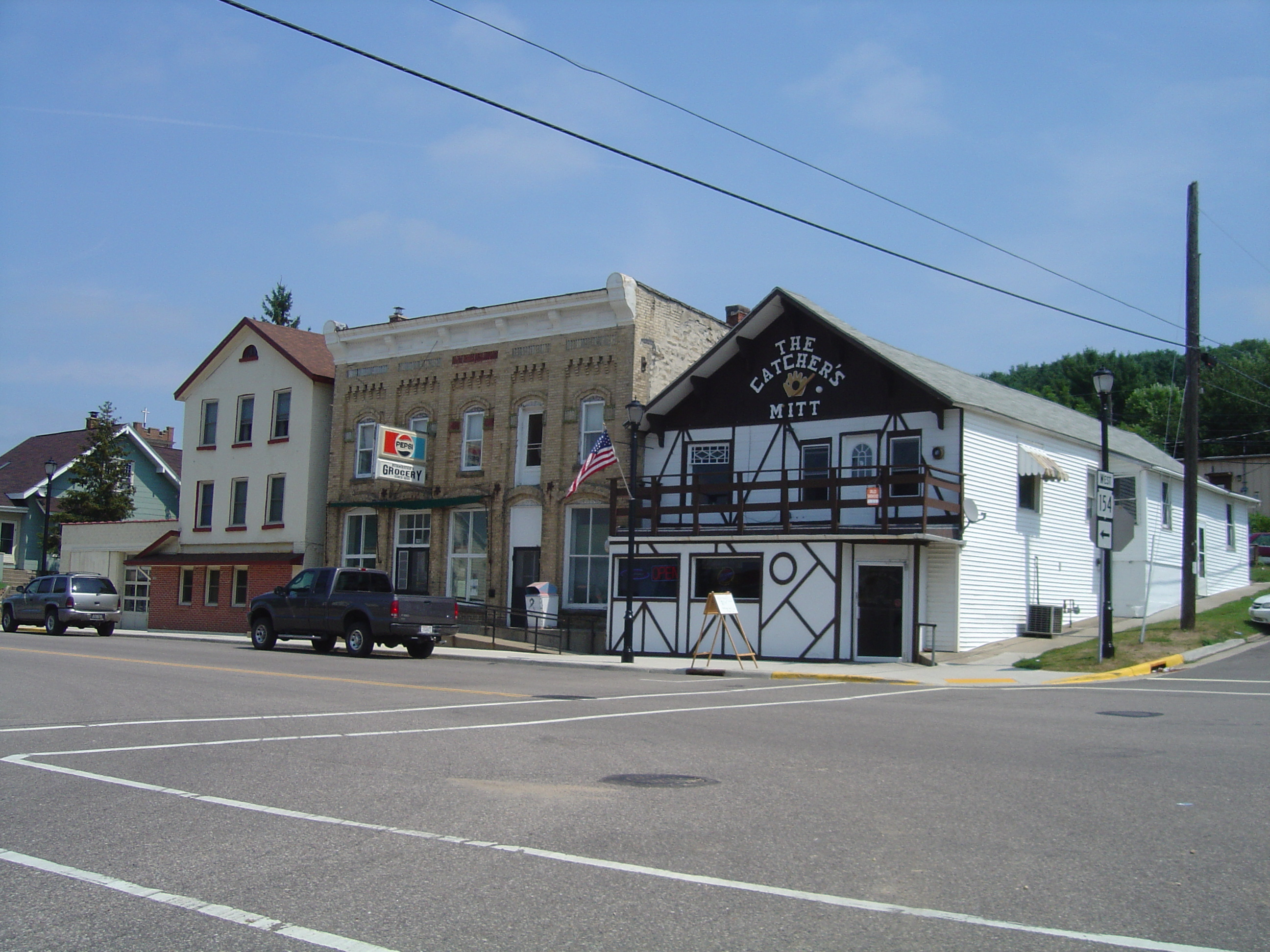 Looking east at downtown Loganville, WI. The eastern terminus of Wisconsin Highway 154 is located on the near left side of the image. Wisconsin Highway 23 is left-right across the image.